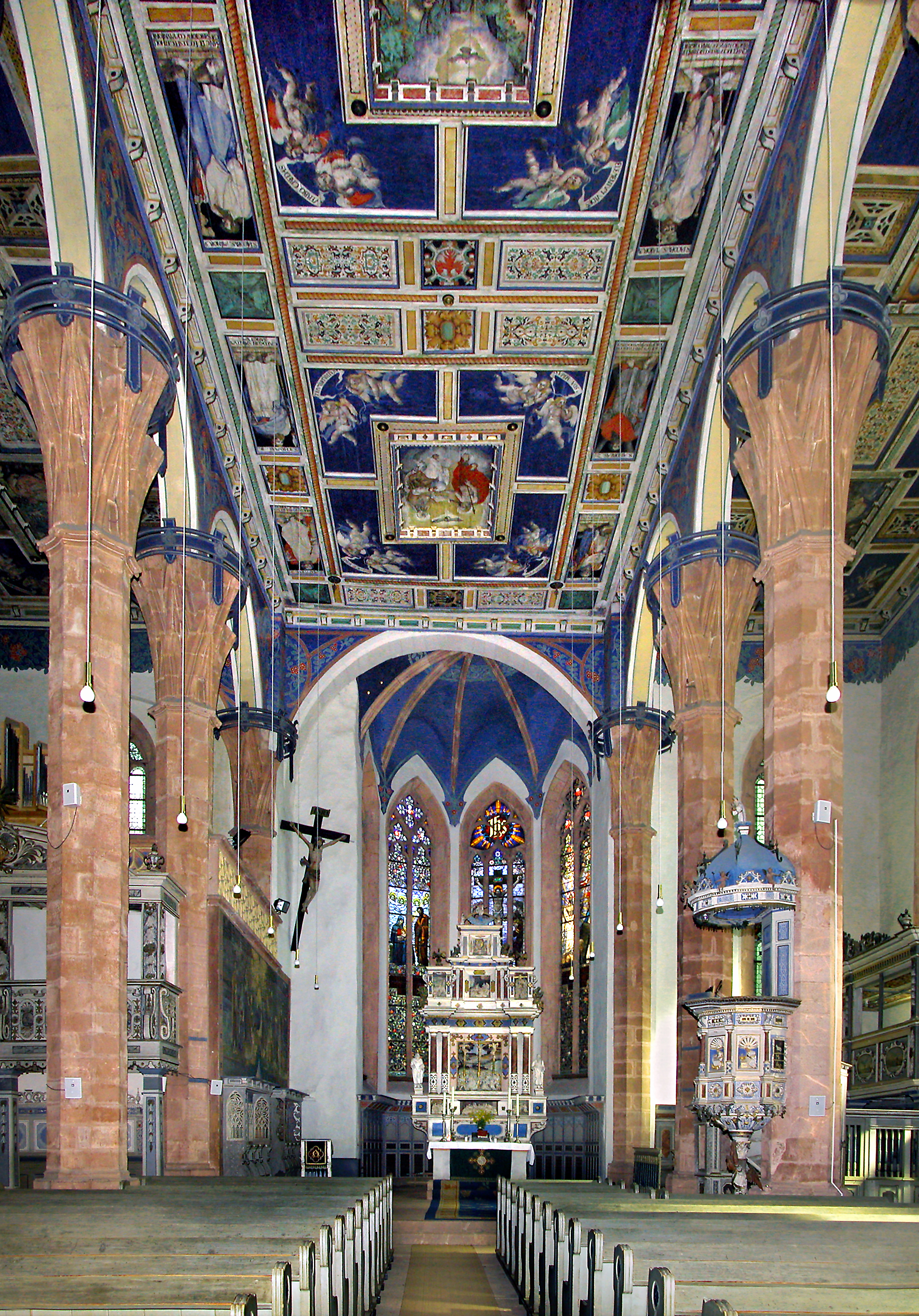 01.09.2009 04643 Geithain: St. Nikolaikirche (GMP: 51.054307,12.689032). Dreischiffiges spätgotisches Hallen-Langhaus (1504 begonnen) mit bemalter Felderdecke(1594/95 vermutl. von A. Schilling aus Freiberg). Gotisches Chorpolygon 14. Jh.; Altaraufsatz um 1611 von M. Grünberger aus Freiberg; Kanzel 1597 von P. Besler aus Freiberg. [DSCN38763-64.TIF]20090901345MDR.JPG(c)Blobelt